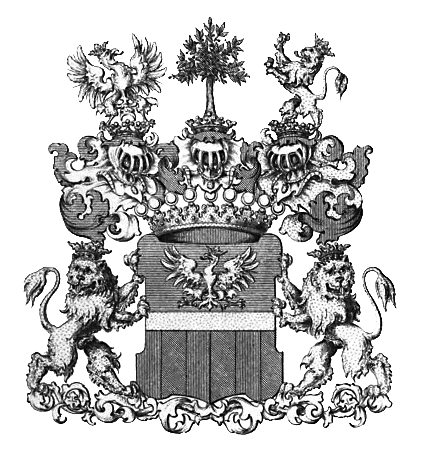 Coats of arms of Counts Alberti von Poja (Alberti di Poja)